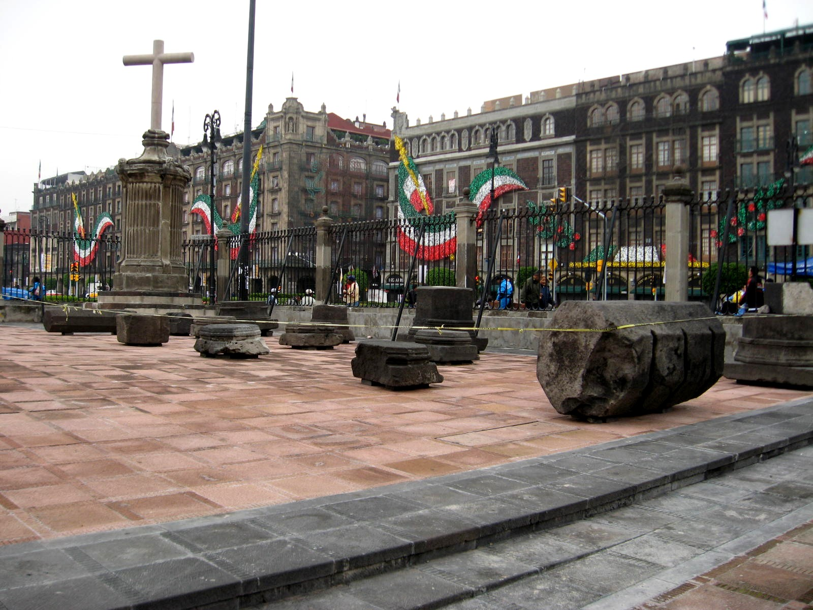 Bases and other artifacts from the foundation excavation of the Mexico City Metropolitan Cathedral on display in front of the church